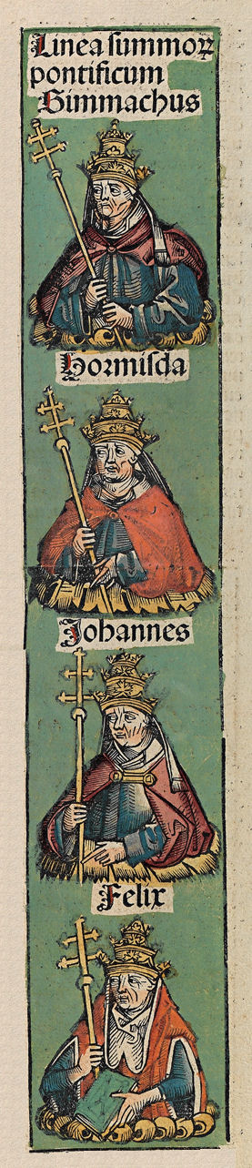 Woodcut from the Nuremberg Chronicle